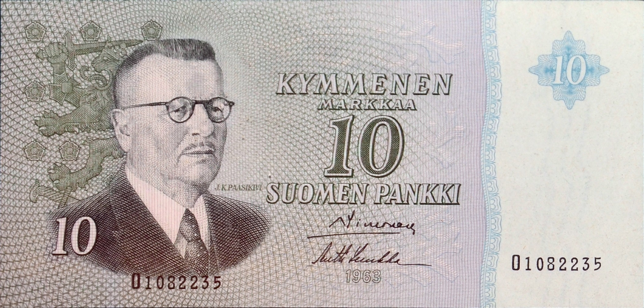 A finnish 10 mark banknote